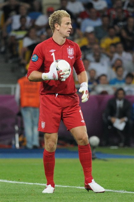 Joe Hart at Euro 2012 match against Italy